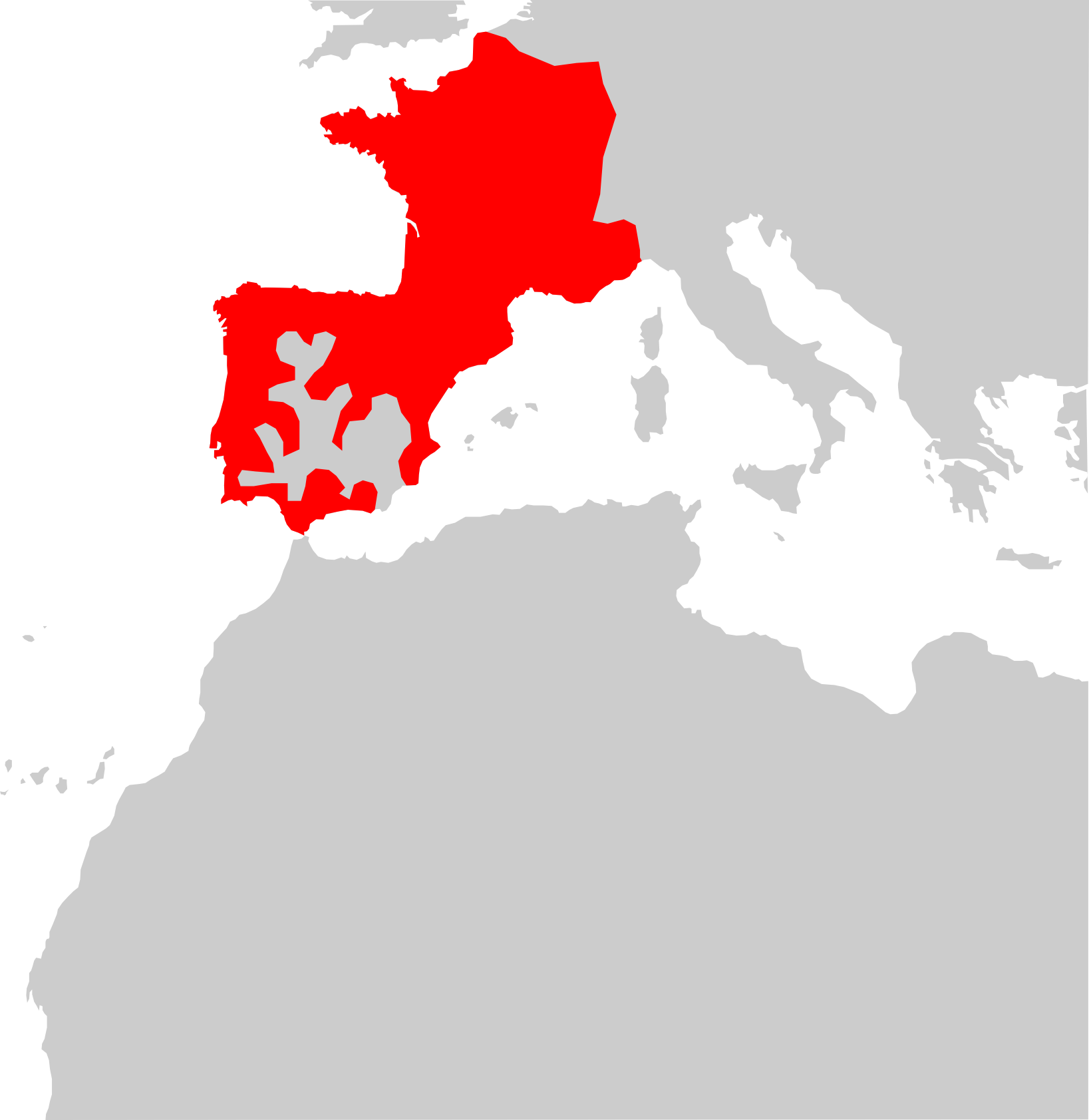 Arvicola sapidus range map.